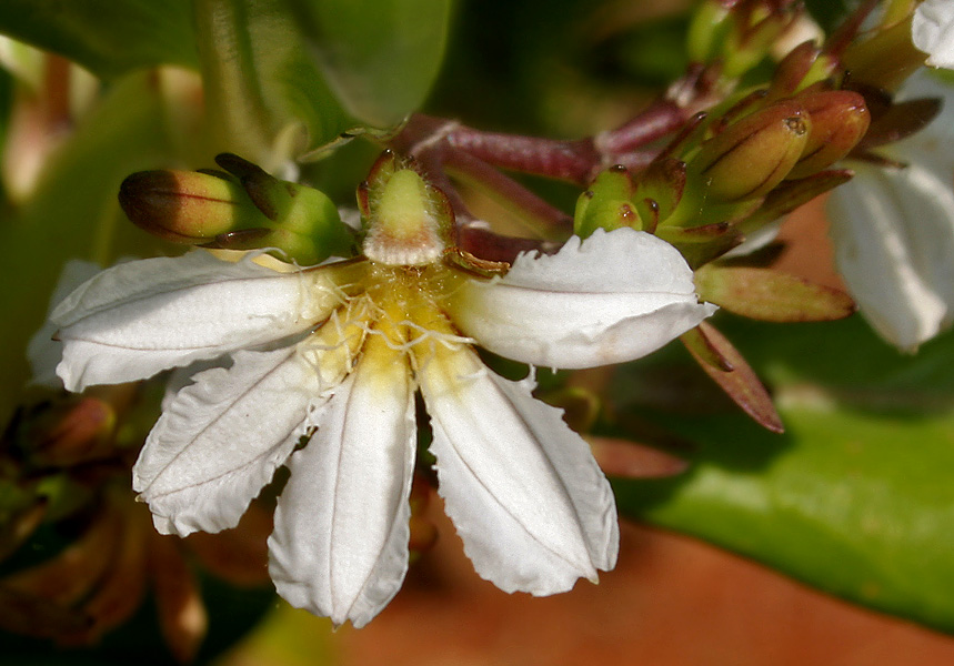 Scaevola sericea- Half Flower, malayan rice paper, beach naupaka • Marathi: Bhadrak, Bhadraksh • Tamil: vella-muttagam • Malayalam: bella-modagam, vella modagam • Kannada: bhadraak; Bhadraksha (Kerala)- in Herbal Garden, in Rangareddy district of Andhra Pradesh, India.